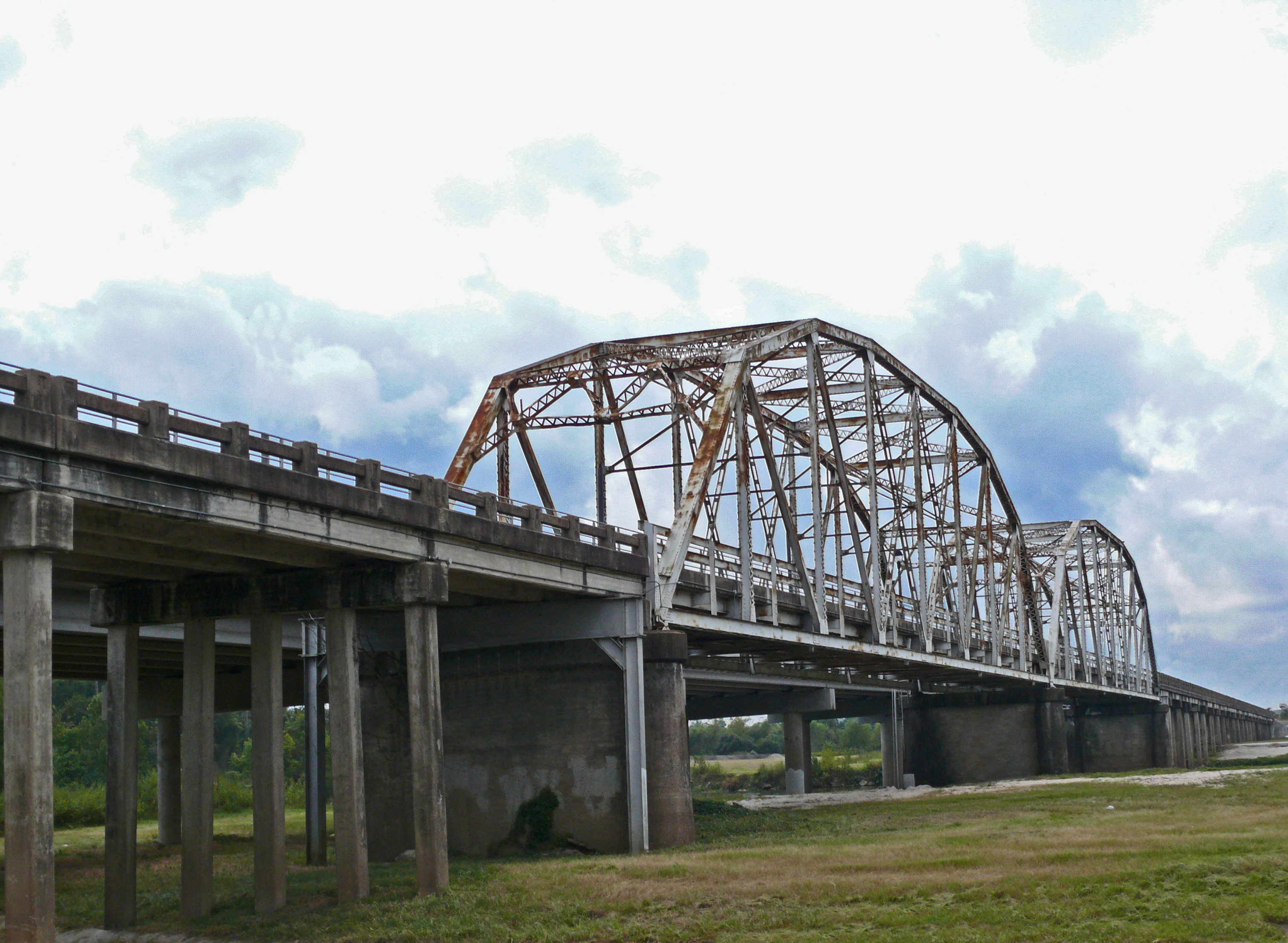 Now retired, this truss bridge carried traffic across the San Jacinto River on US Higway 59 at Humble, Texas for many years